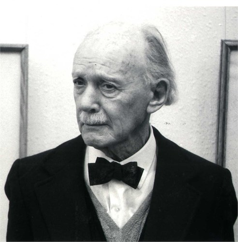 1974 Budapest